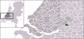 Location of Gorinchem